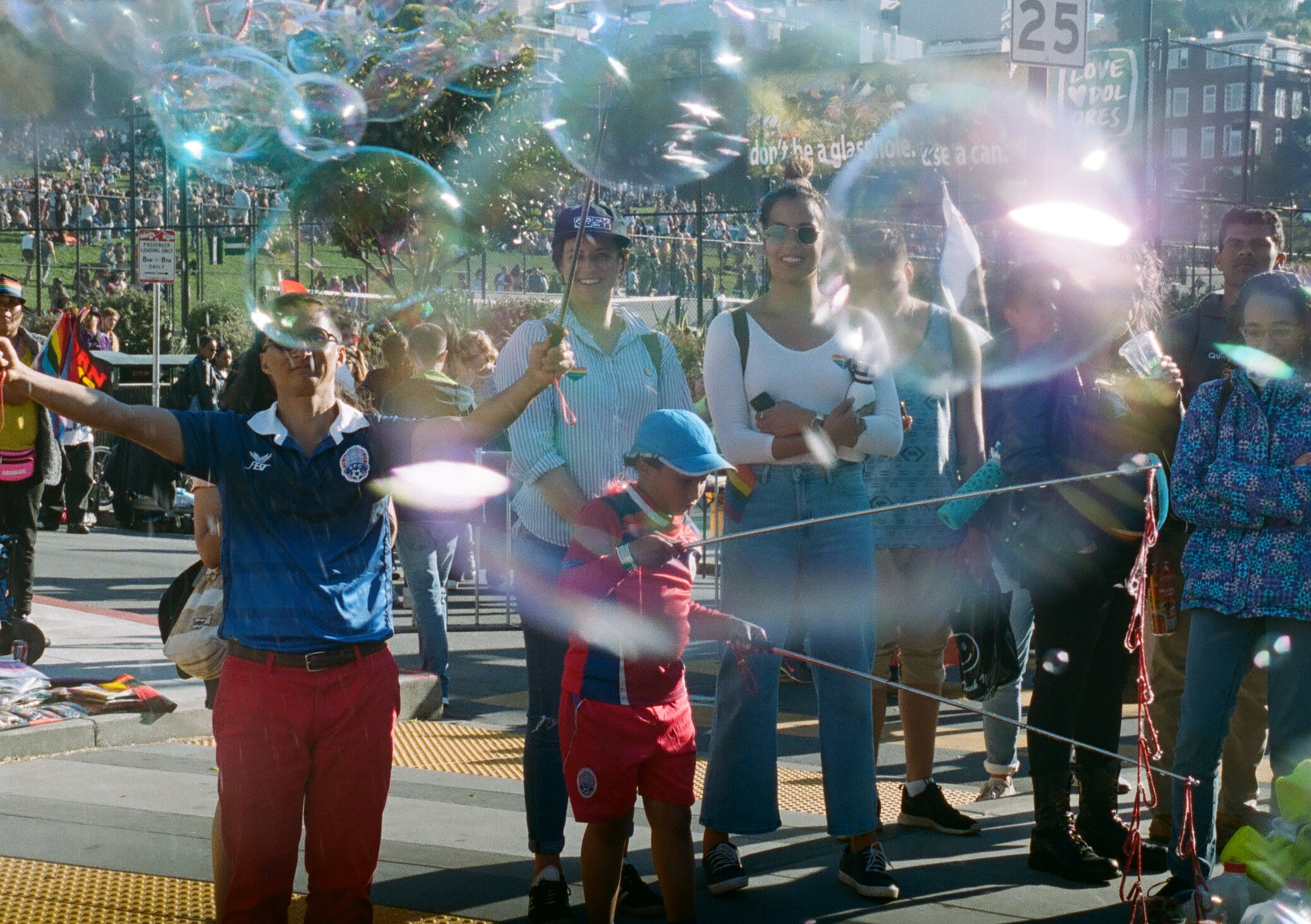 A child and adult blow soap bubbles at Delores Park, SF during Dyke March in June, 2019. Spectators look on and smile.